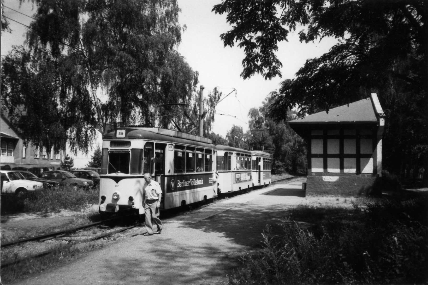 A three car double ended tram, northbound for Strausberg,consisting of 2 Reko triebwagen and a sandwiched trailer car on the Isolated tramway east of Berlin, route 89.